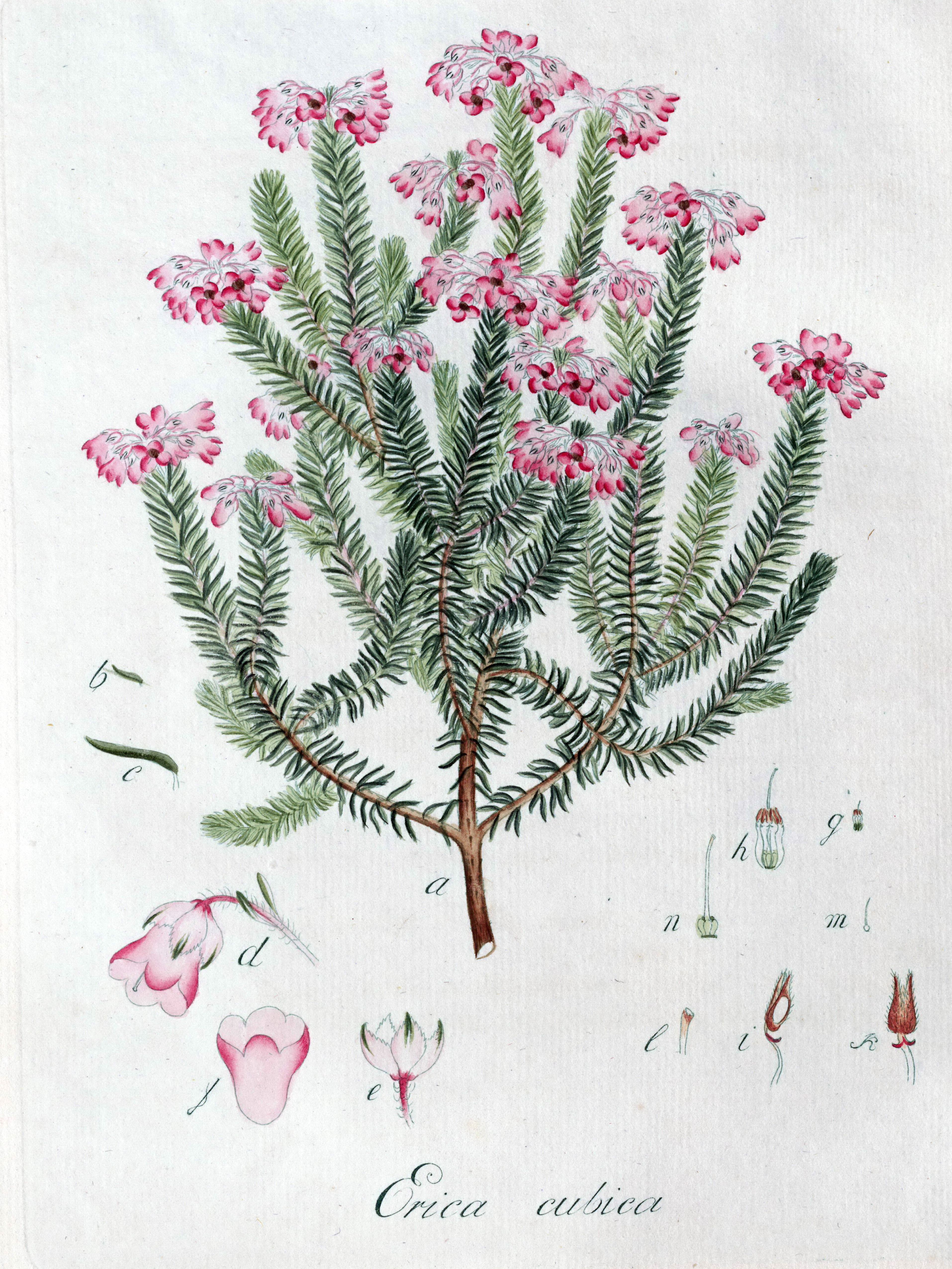 Erica cubica L. - Wendland, J.C., Ericarum Icones et descriptiones. Abbildung und Beschreibung der Heiden, Heft 1-12, vol. 1: fasicle 11, t. [6] (1802) [J.C. Wendland]